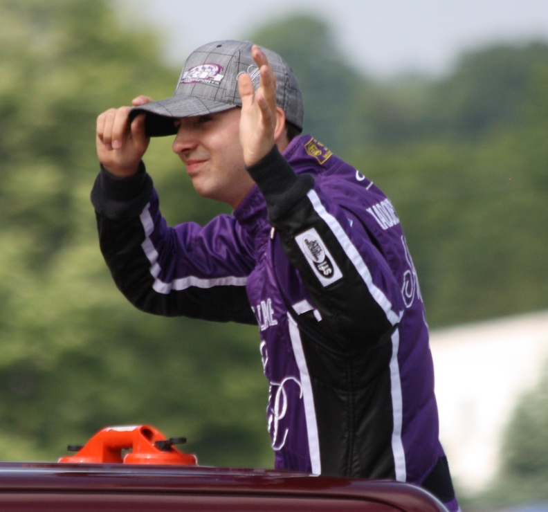 NASCAR driver Dexter Stacey at the 2013 Johnsonville Sausage 200 Nationwide Series race at Road America.